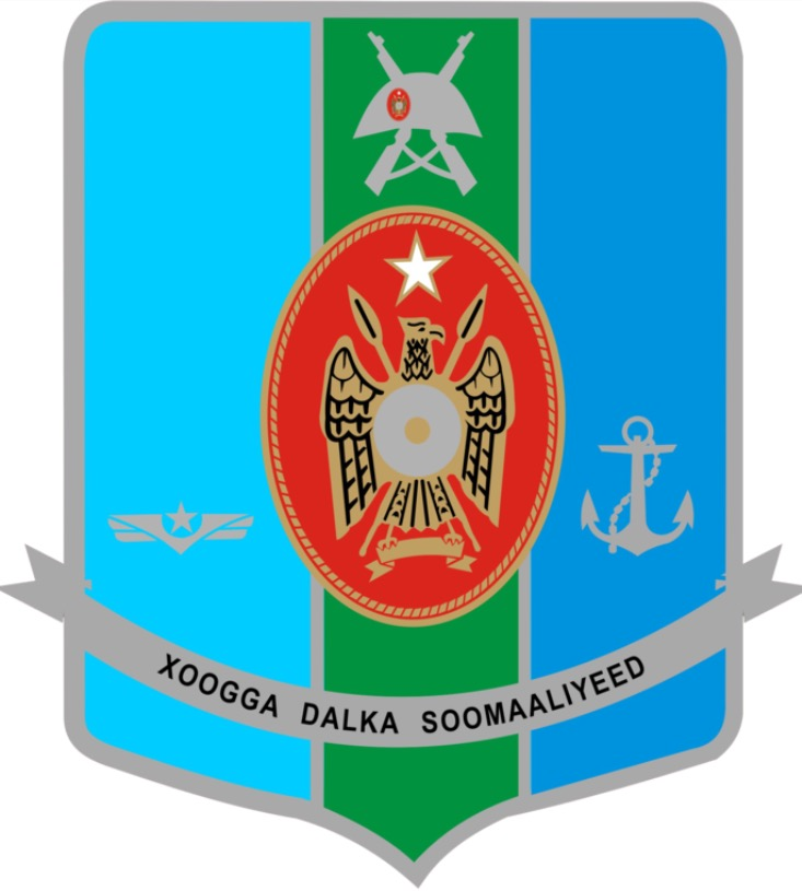 Emblem of Somali Armed Forces